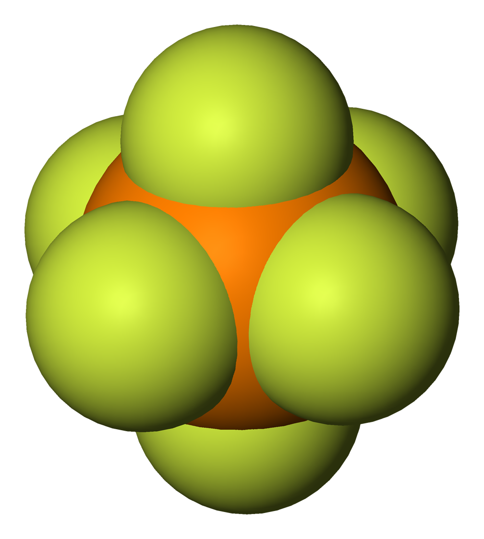 Structure of the hexafluorophosphate anion, PF6−.